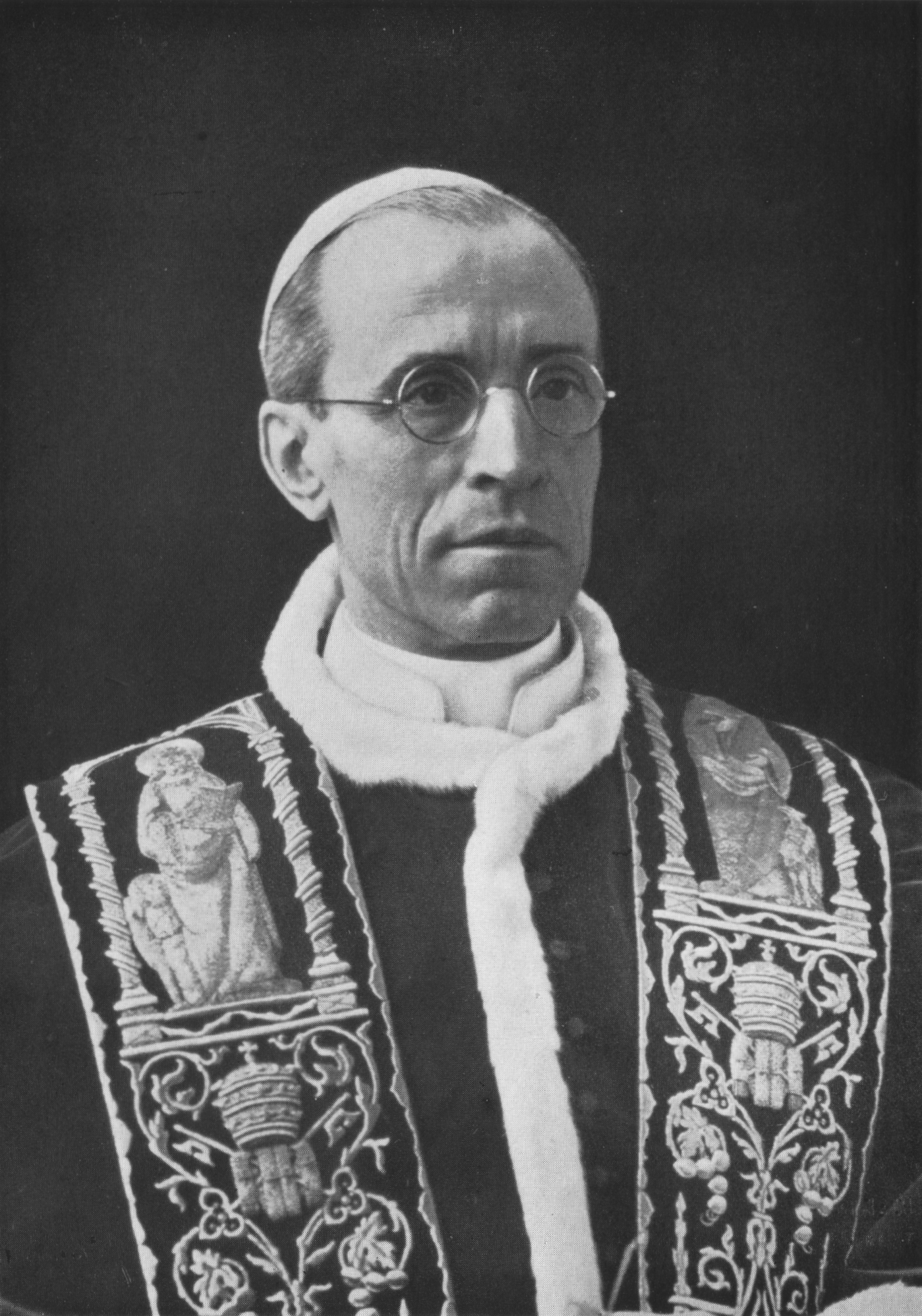 Pope Pius XII